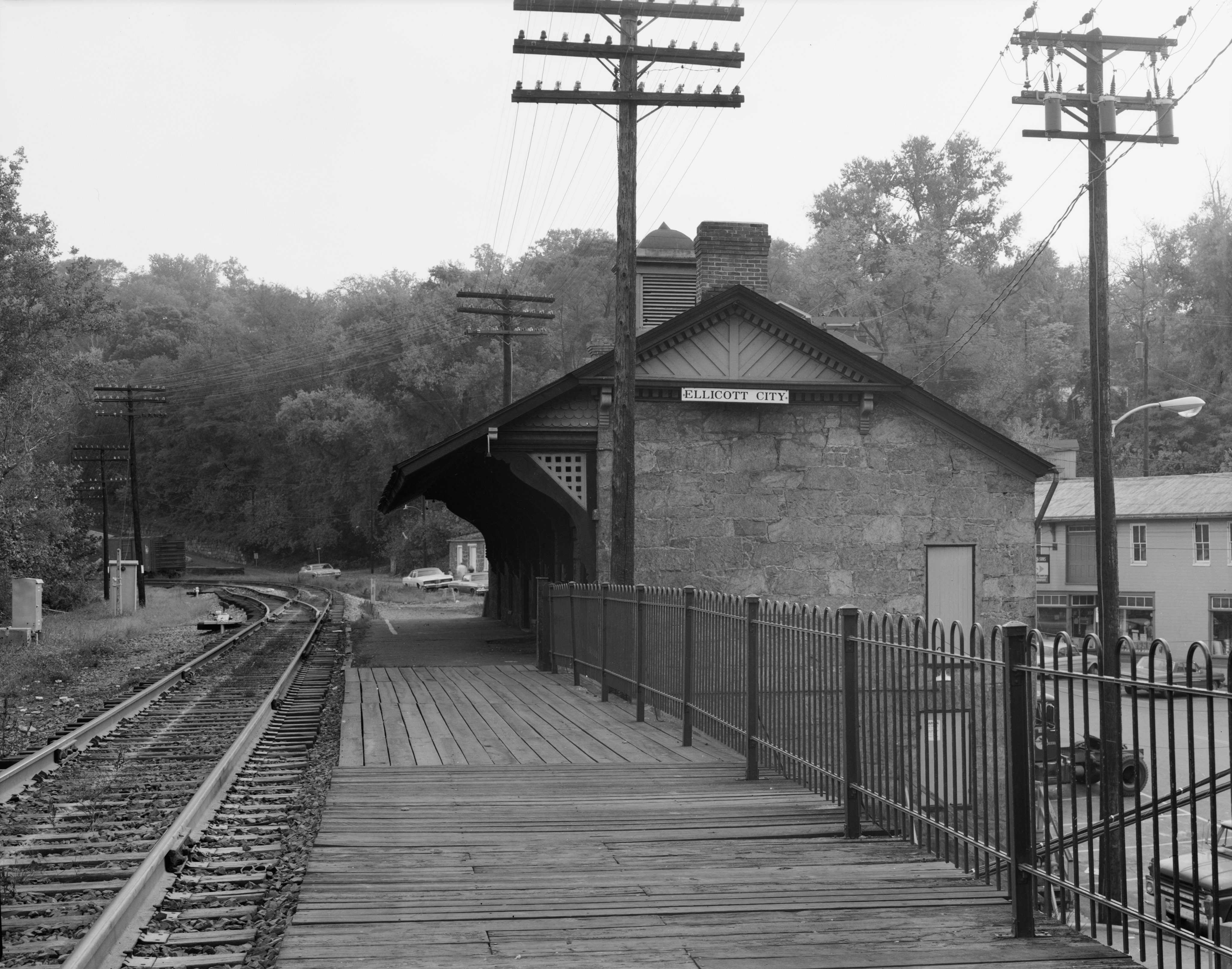 View of Ellicott City Station, Ellicott City, Maryland. Built 1830 by the Baltimore and Ohio Railroad. Oldest remaining passenger station in the United States.